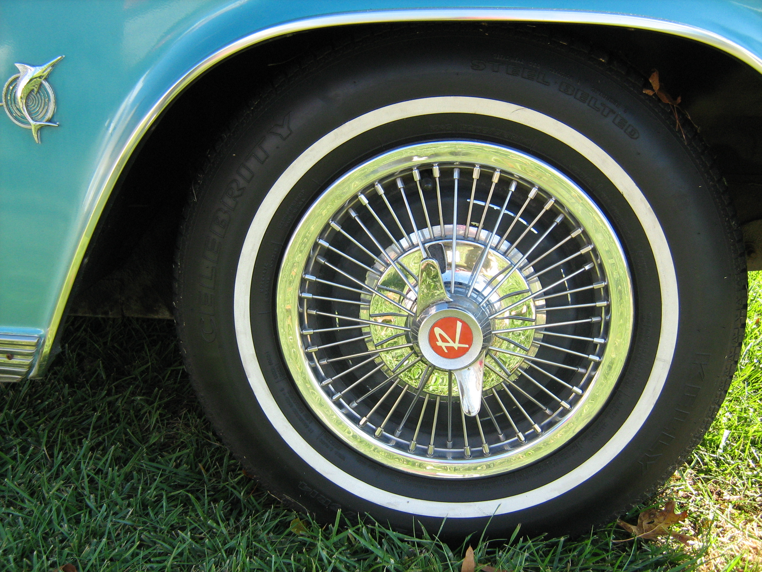 1965 Rambler Marlin by American Motors Corporation (AMC) A sporty "personal-luxury" two-door hardtop fastback.